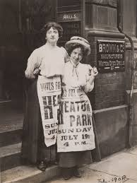 WSPU Suffrage Women, Patricia Woodlock and Mabel Capper, Advertising Meetings, July 1908. Source: Museum of London, ID. no. NN22779.